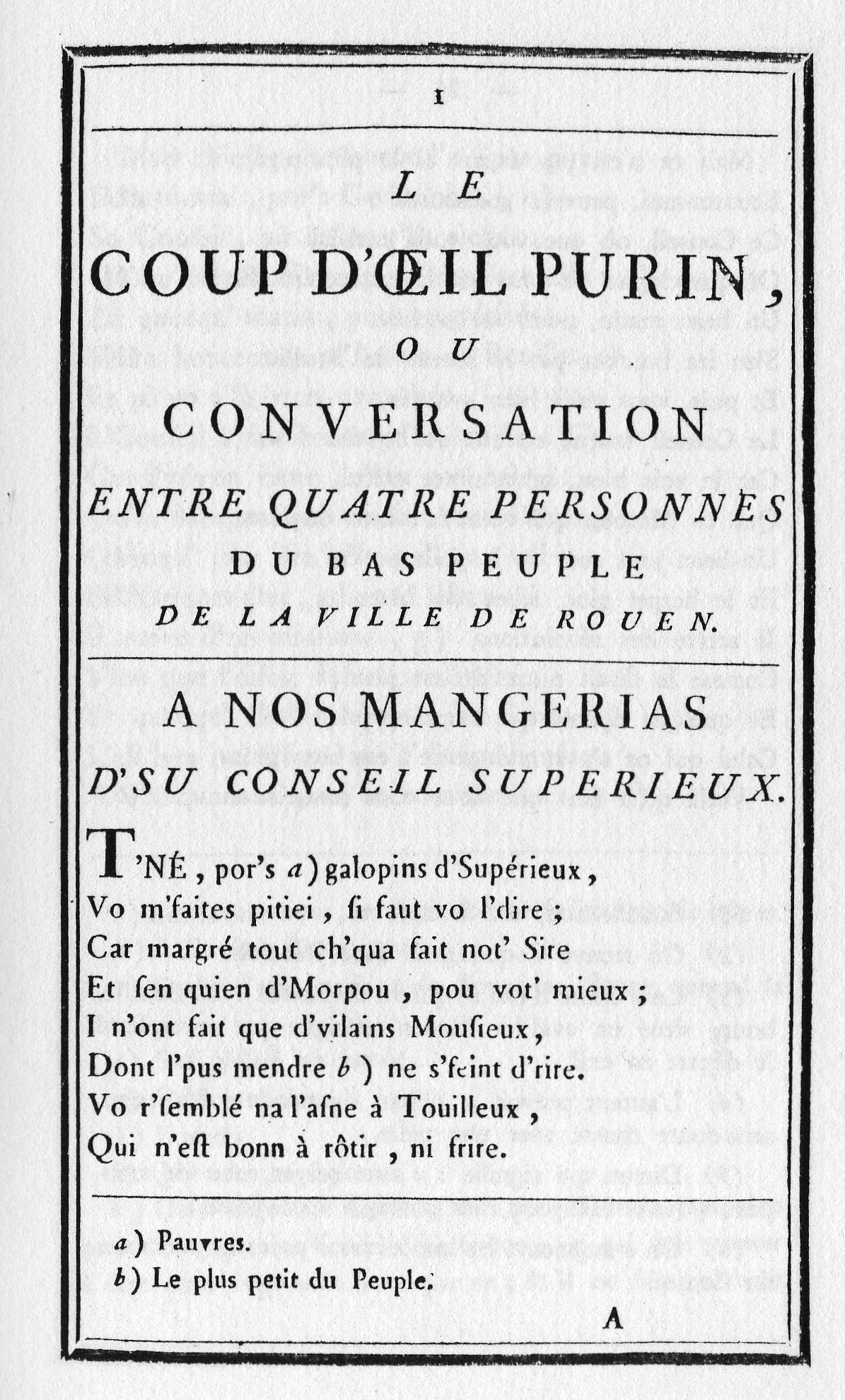 First page of "Le Coup d'œil purin", a polemic satire in the Norman language, published in Rouen, Normandy, in 1773